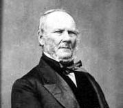 Henry Grider, US Representative from Kentucky